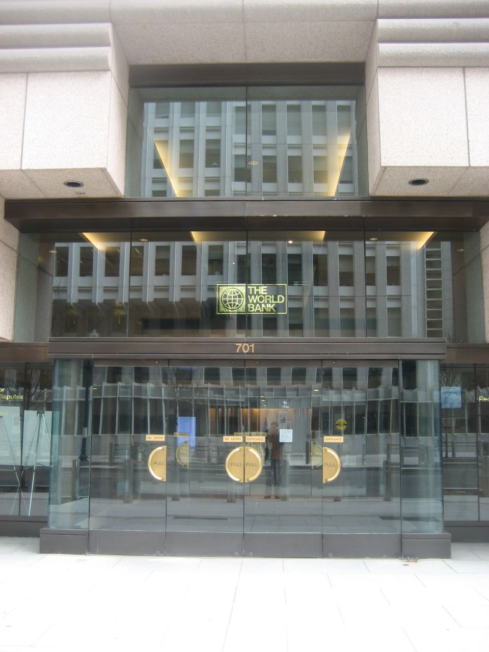 Entrance of the he World Bank Group headquarters building — in Washington, D.C.